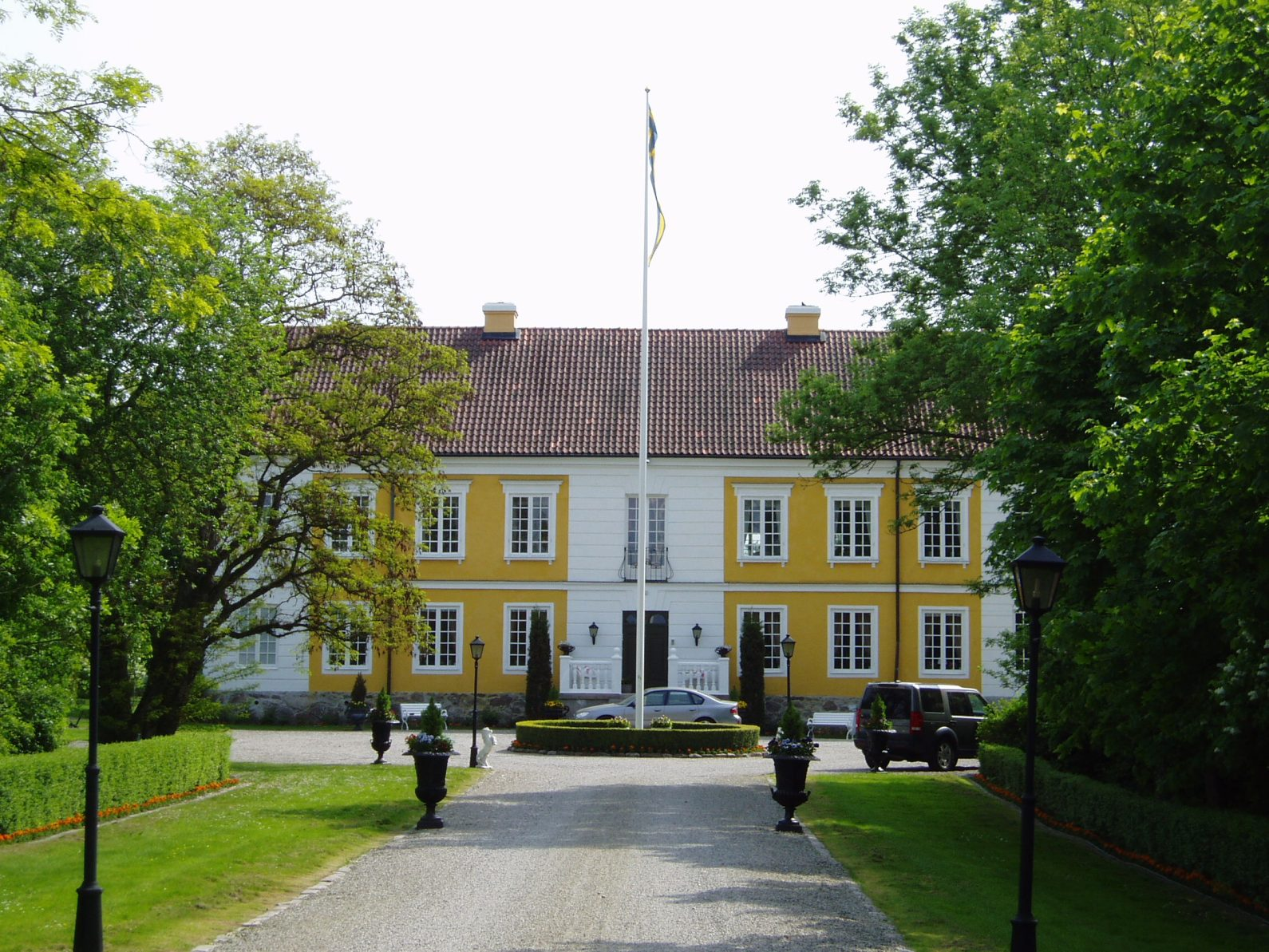 Mansion Fulltofta, Hörby Municipality, Scania, Sweden